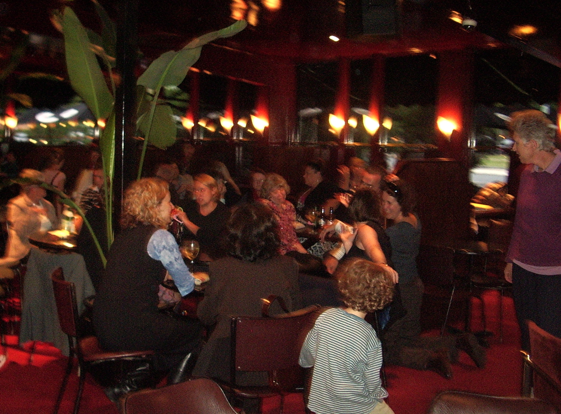 Evening scene at Tilley's Cafe in Lyneham, Canberra